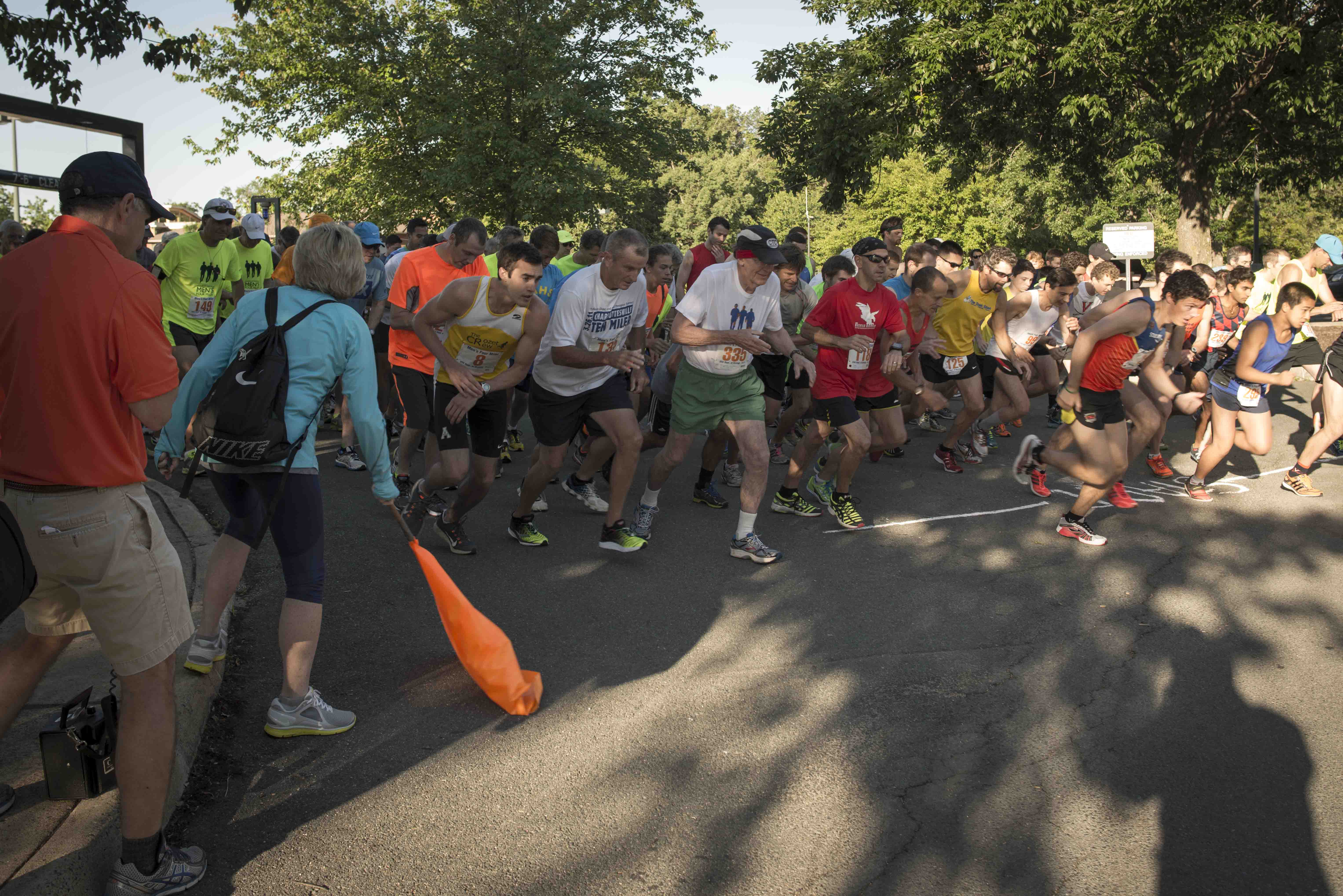 Start line at the 2014 Men’s Four Miler Race in Charlottesville. Holding the signal flag is Woman’s Basketball Hall of Fame Debbie Ryan